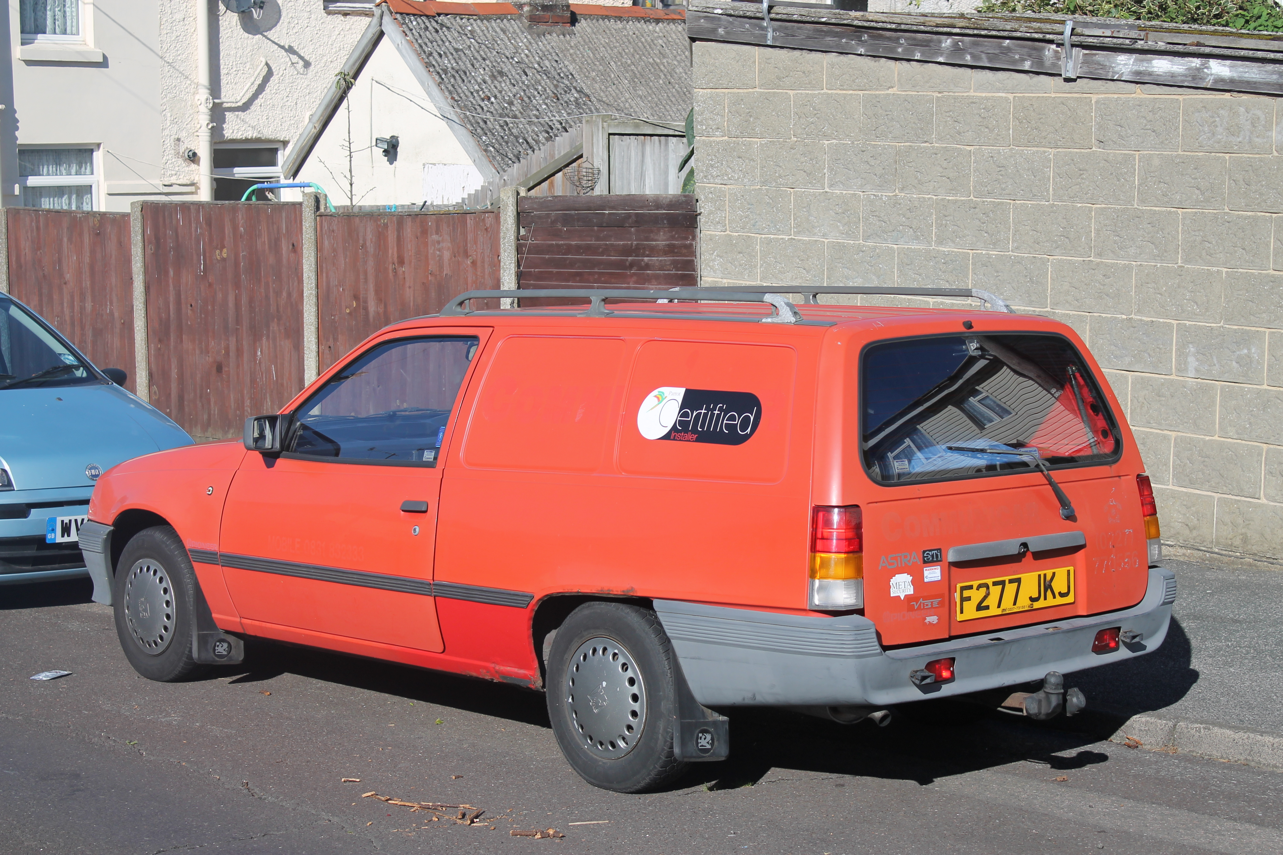 Made my day seeing this, a proper timewarp example. Haven't seen a van for years now, especially an earlier Bedford badged example like this one. Amazing to see it's still a working vehicle too, for an installer of some description. Looks rather faded as all old red Vauxhalls do, and still keeping its original wheel trims. I was so pleased to spot this one. Unfortunately not the easiest lighting at this time of year. You can still see the shadows of previous stickers, showing the old style phone number at the back, and Communicar, which is a car security company based locally. Registration number: F277 JKJ ✔ Taxed Expires: 01 November 2014 ✔ MOT Expires: 29 October 2014 Vehicle make :BEDFORD Date of first registration :12 May 1989 Year of manufacture :1989 Cylinder capacity (cc) :1297cc CO₂Emissions :Not available Fuel type :PETROL Export marker :No Vehicle status :Taxed and due Vehicle colour :RED